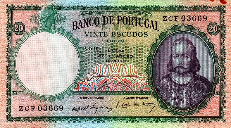 A Portuguese 20 Escudo Bank Note from 1951.